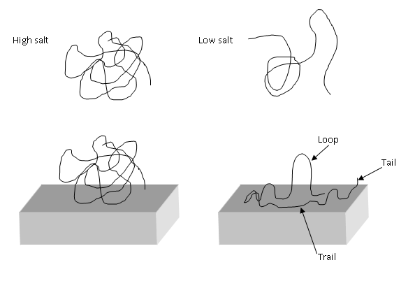 Representation of the effect of salt on a polyelectrolyte molecule in solution. These effects can also be produced by interactions between the polyelectrolyte and the solvent. A poor solvent will cause a similar conformation and deposition to the high salt concentration, and a good solvent is simiilar to the low salt conformation.